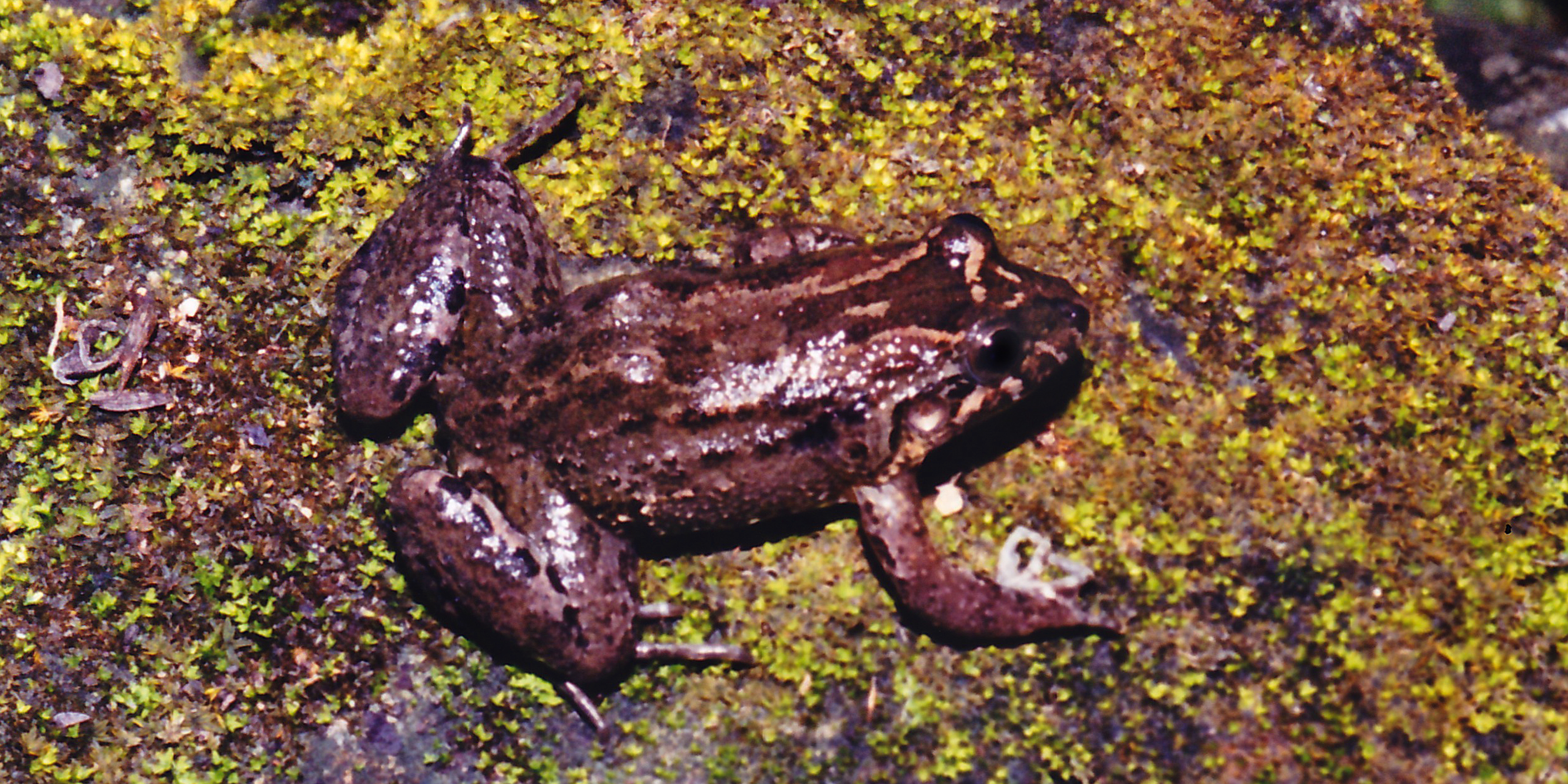 Sabinal Frog (Leptodactylus melanonotus) Municipality of Aldama, Tamaulipas, Mexico. Photographed on 3 June 2004 by William L. Farr. This image was originally photographed with film and later scanned from a print.